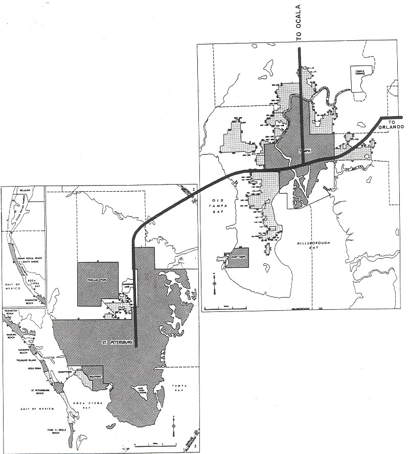 Interstates in today's terms I-4 (now partly I-275) I-75 (now I-275)